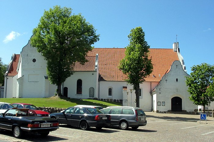 Sct. Catherine's church in Hjørring, Denmark